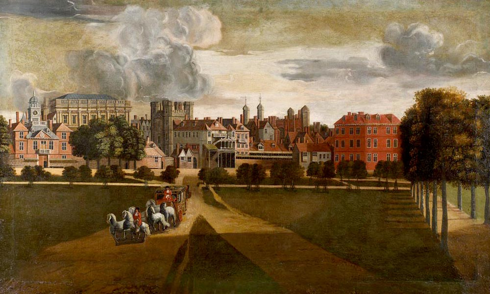 The view is from the west. Despite appearances this painting shows a single palace. The Banqueting House is on the left.